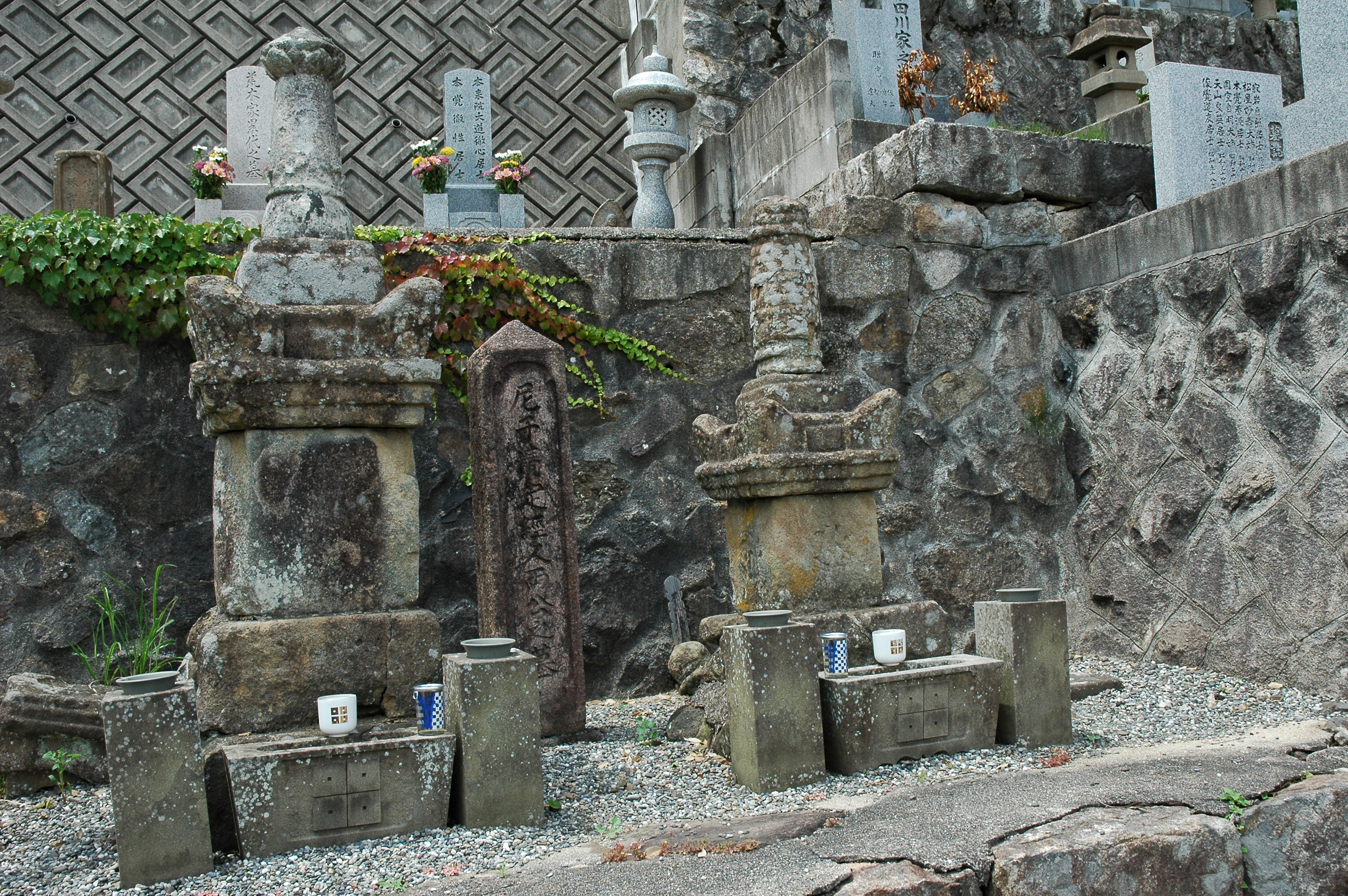 tomb of Amago Kiyosada(right) and Amago Tsunehisa(left) in Tokoji Hirosecho, Yasugi, Shimane, Japan